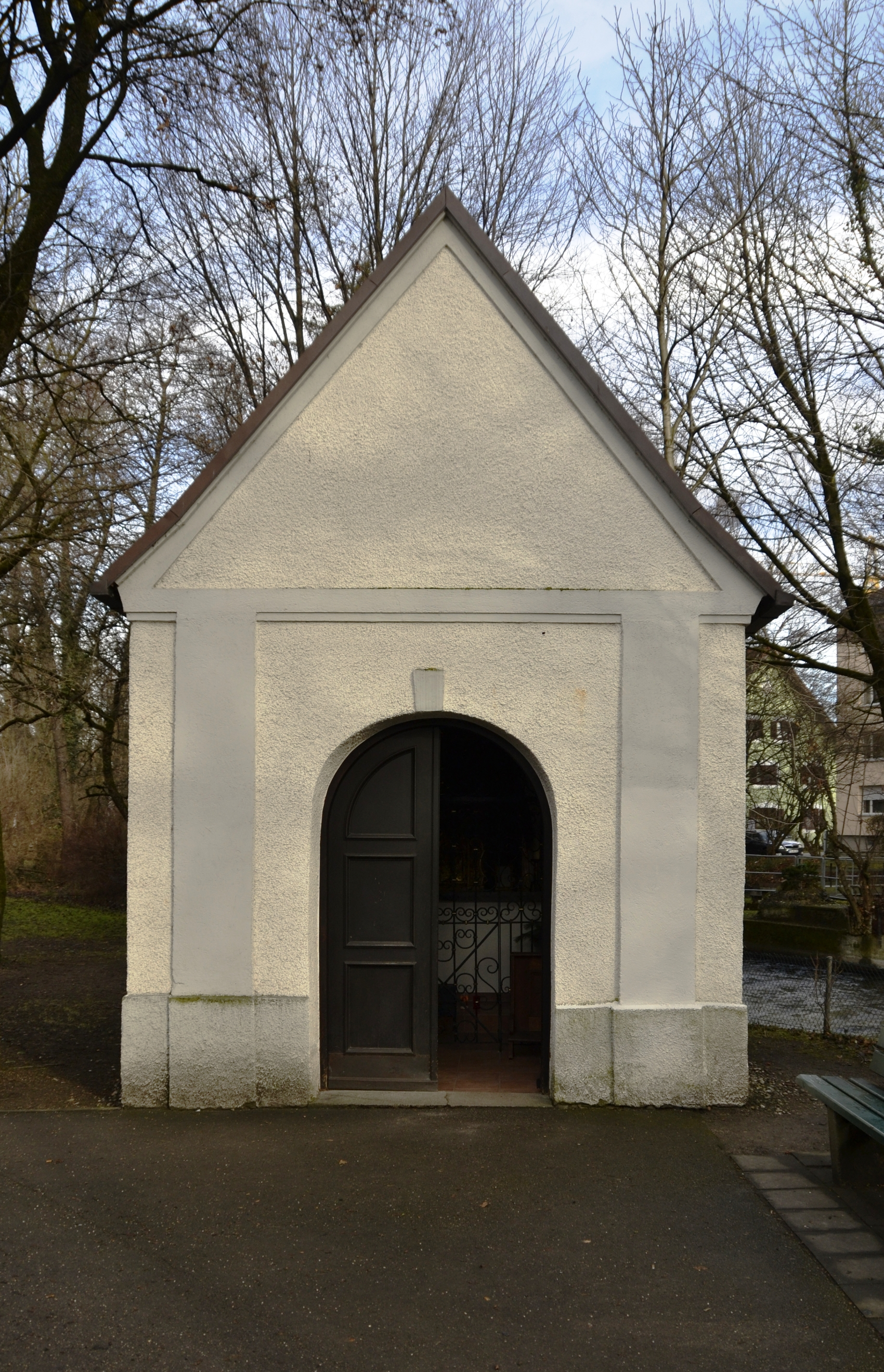 The Johann-Nepomuk-chapel in Munich (Pasing district).